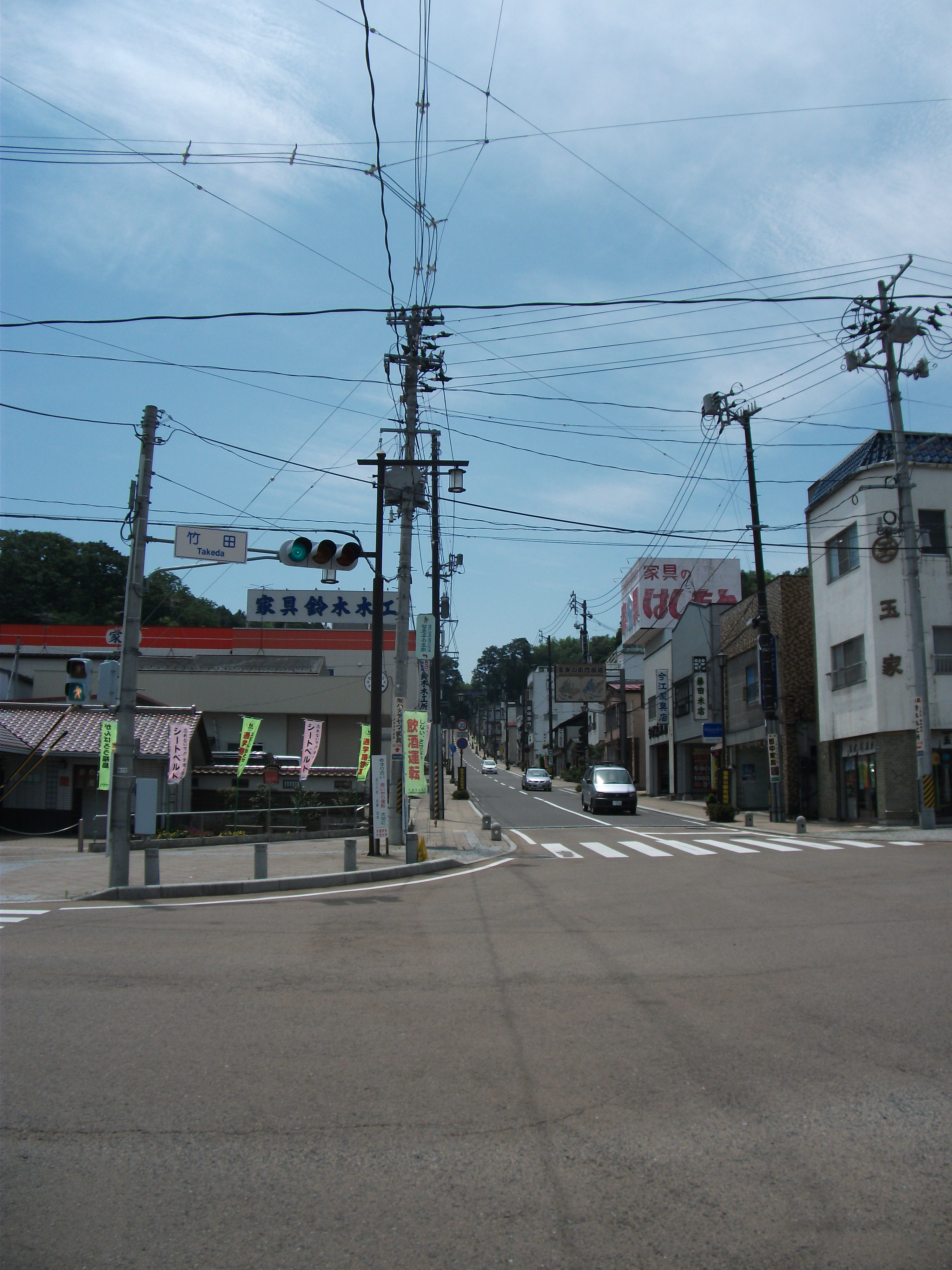 Nihonmatsu_Takeda_street (Fukushima, Japan)